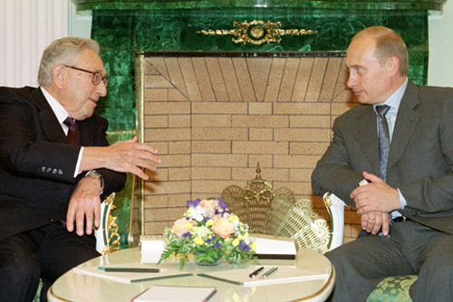 THE KREMLIN, MOSCOW. President Vladimir Putin meeting with former U.S. Secretary of State Henry Kissinger, an honorary member of the International Olympic Committee.